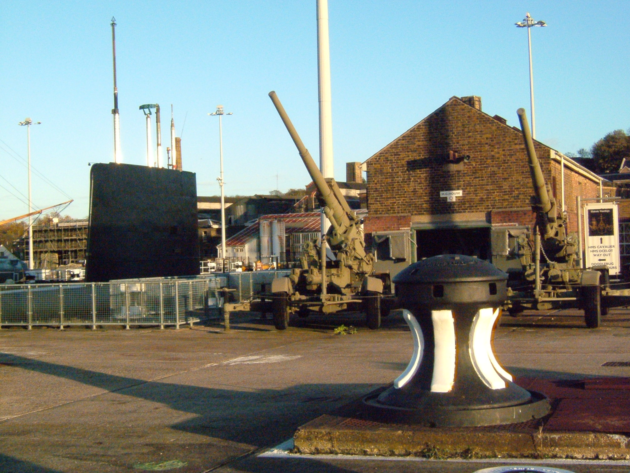 Chatham Dockyard, Kent,England has the finest collection of 18th and 19th century naval dockyard buildings many of which are scheduled as ancient monuments. Taken November 2006. No 3. Dry dock 1820 Designed by John Rennie. Now hosts Museum Submarine HMS Ocelot.